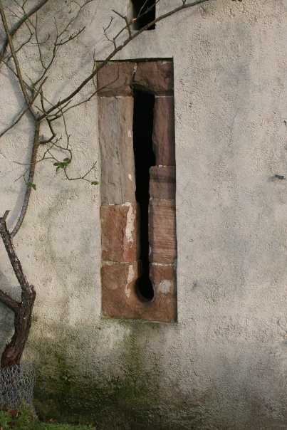 Photo taken of Foulis Castle